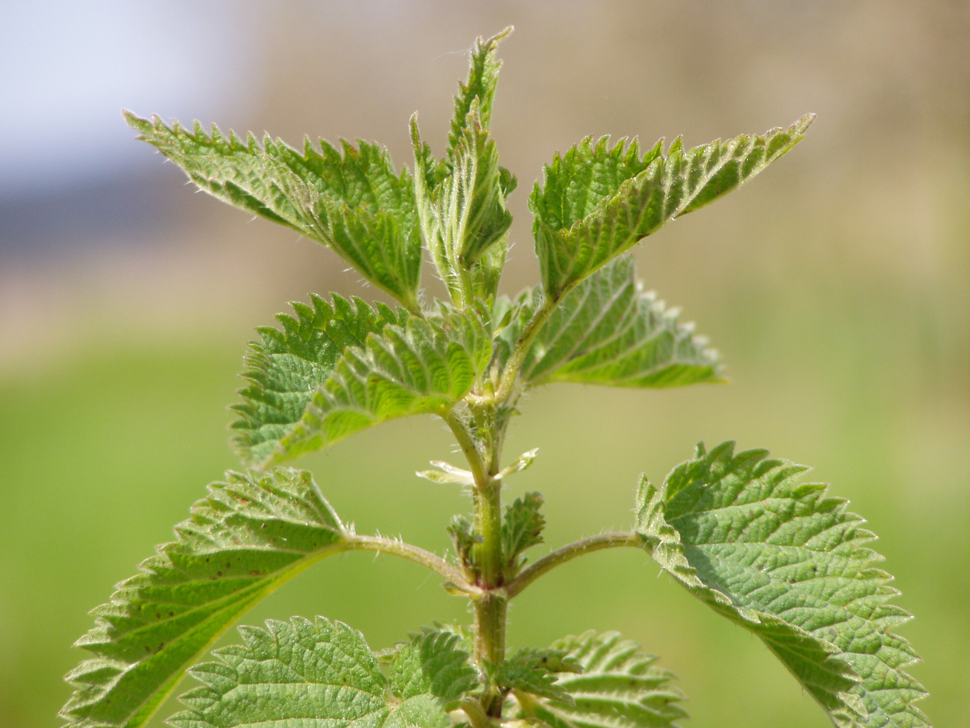 Stinging nettle